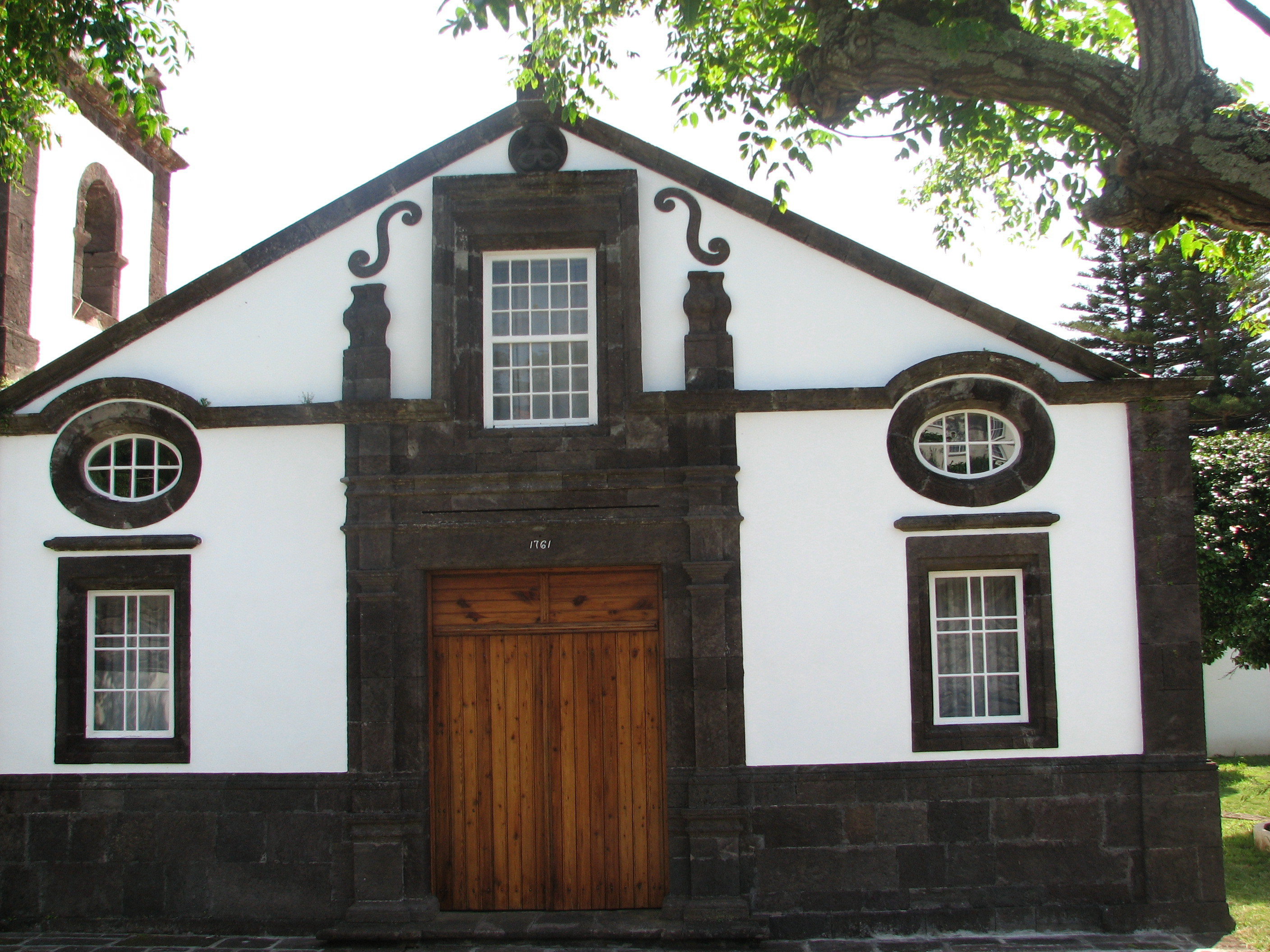 Facade of the Matriz do Topo church, Vila do Topo, São Jorge. The date over de main door (1761) marks the reconstruction of the temple after the devastating July 9th, 1757, "Mandado de Deus" earthquake.